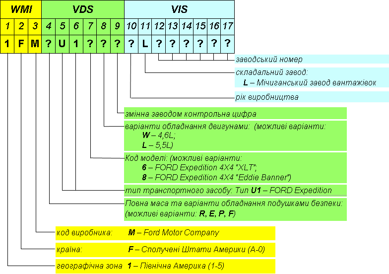 Інформація VIN-коду автомобіля Ford-Expedition